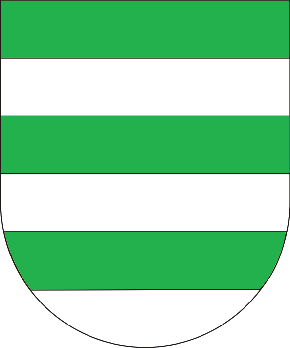 coats of arms of the lordship of Fleckenstein